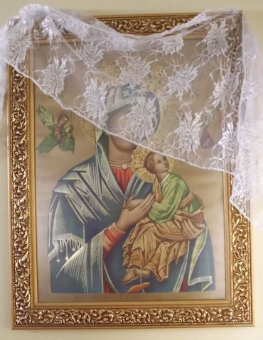 Image of Our Lady of Perpetual Help (with veil to prevent frost), Iturbide, Nuevo León, México